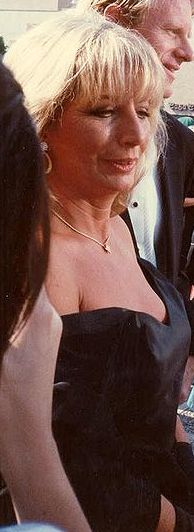 Penny Marshall on the red carpet at the 40th Annual Primetime Emmy Awards, 8/28/88.